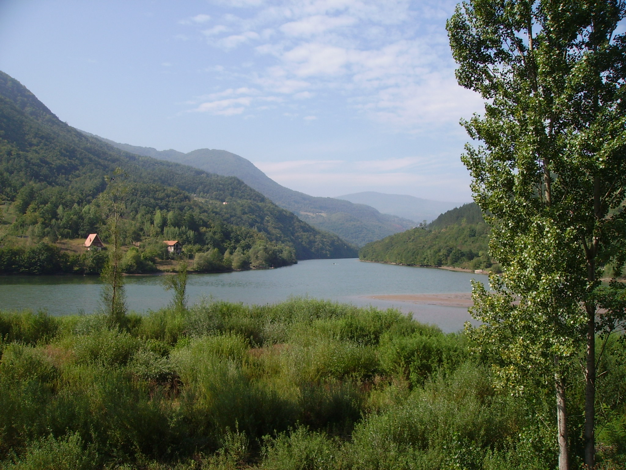 Drina River in Ustiprača, BiH.